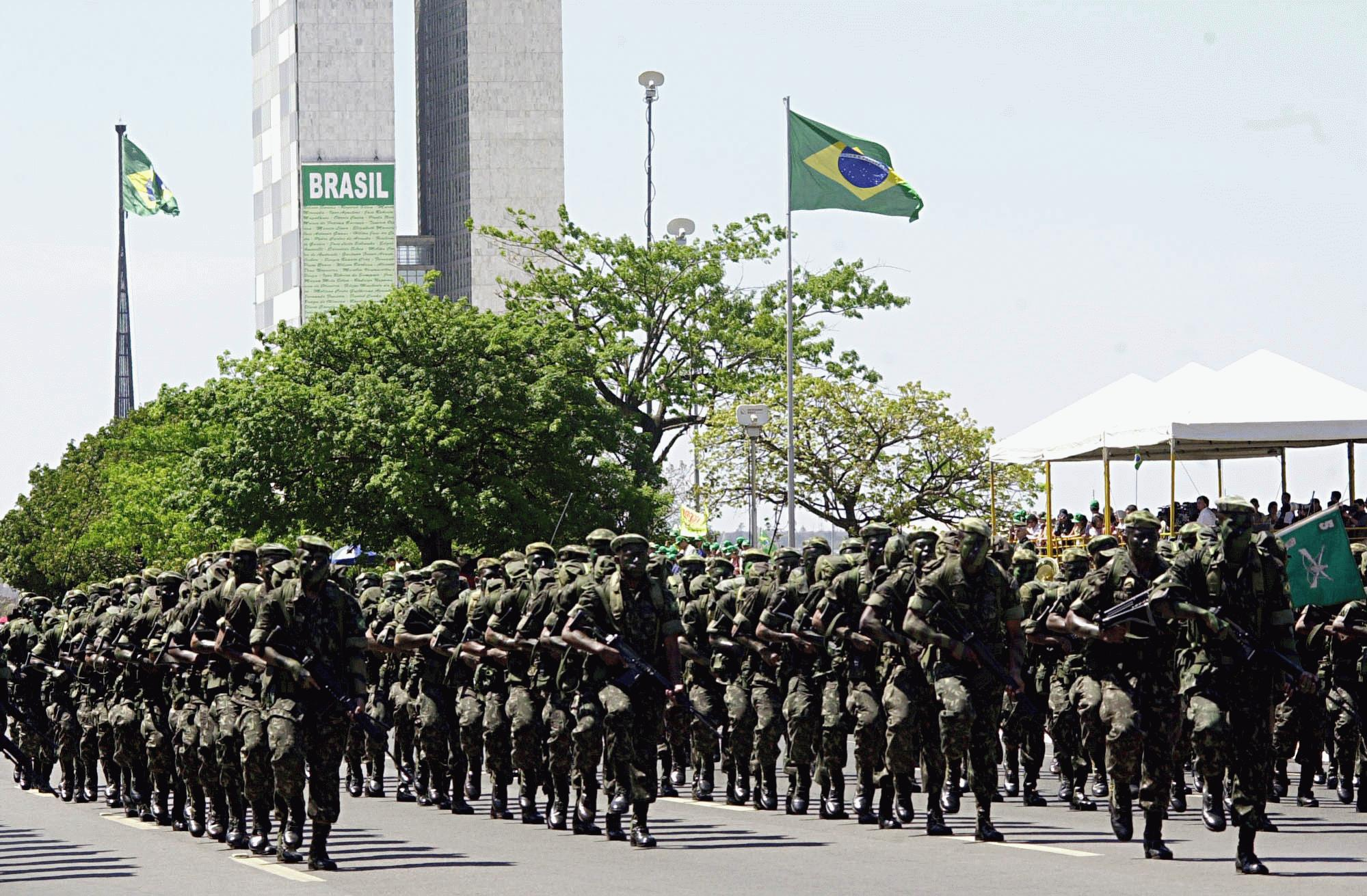 Brazilian Army soldiers during the 2003 Independence Day Parade in Brasília, Brazil.